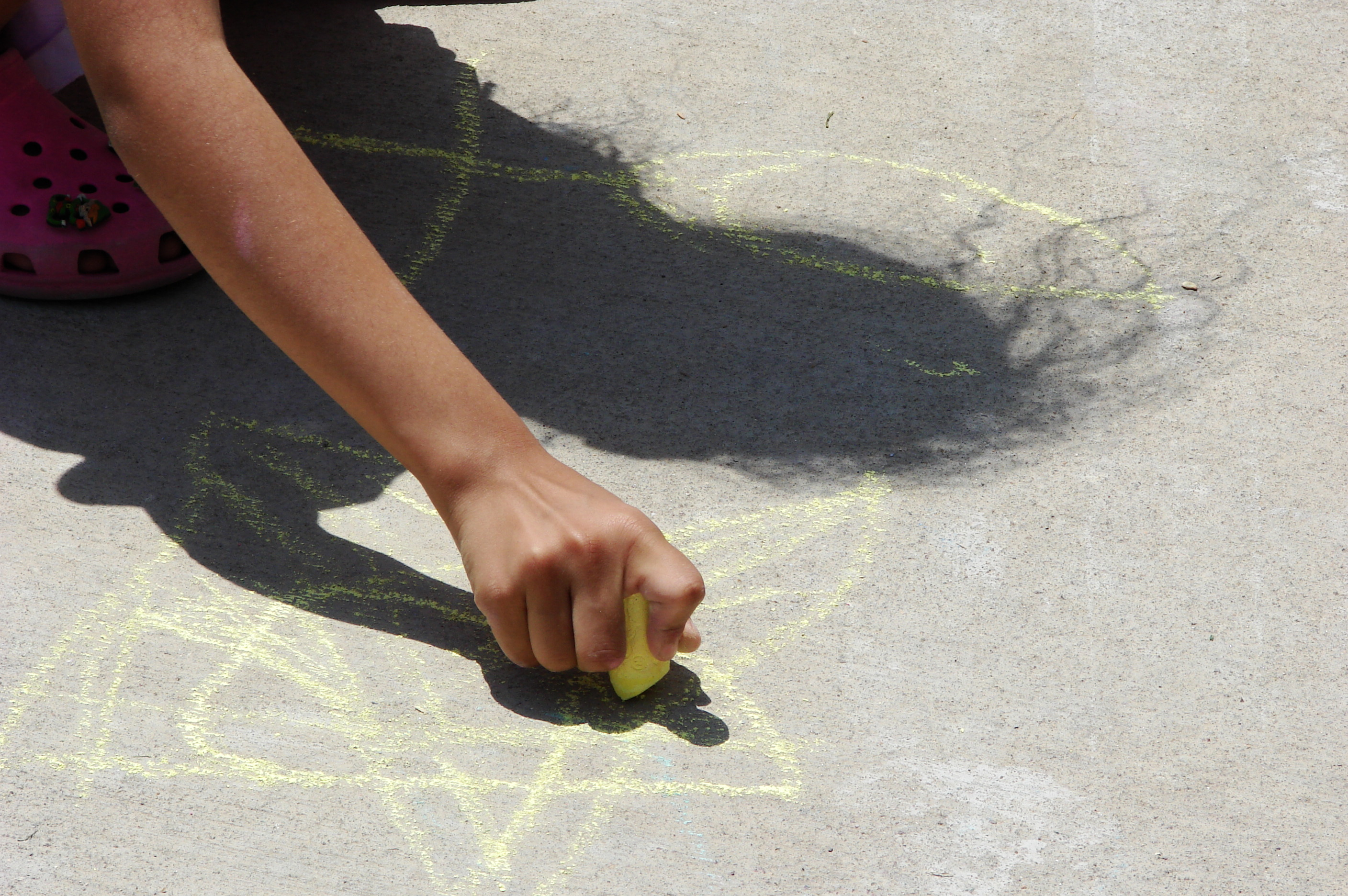 Child creating sidewalk art using colored chalk.